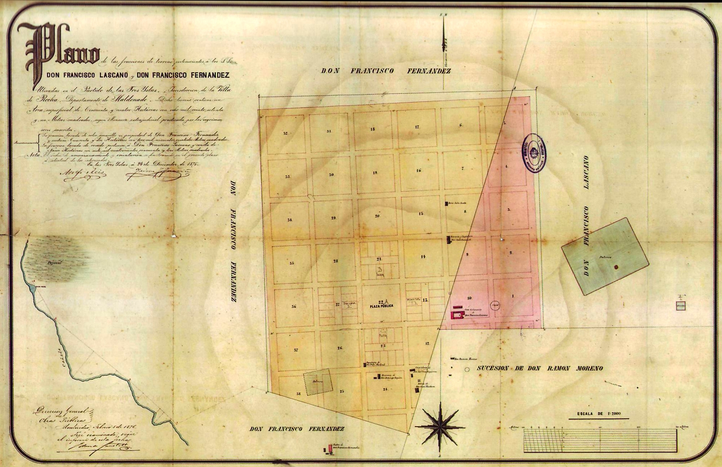 Map of Pueblo Lascano of 1875